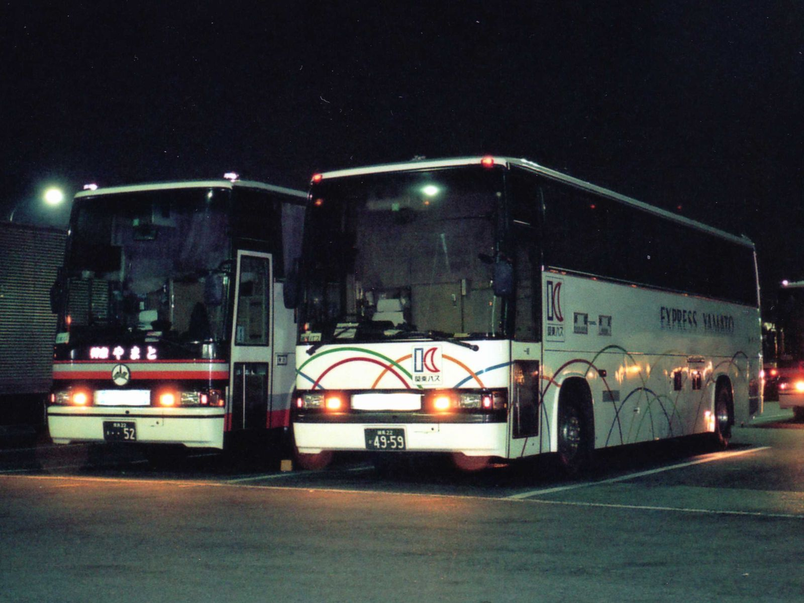 Nara Kotsu 52 "Yamato" Kanto Bus 4959 "EXPRESS YAMATO" Hino P-RU638BB at Ashigara Service Area